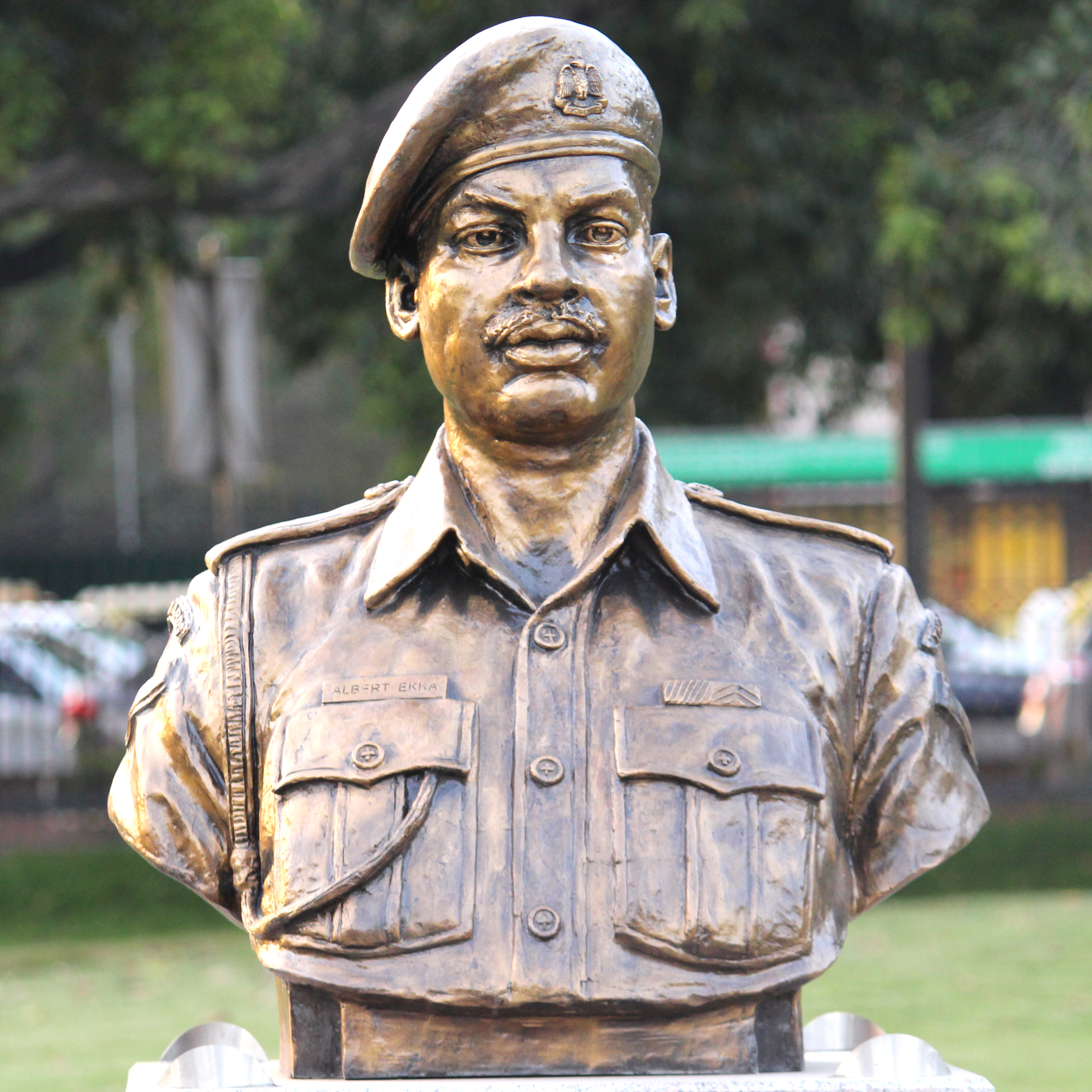 Lance Naik Albert Ekka's statue at Param Yodha Sthal (section for Param Vir Chakra recipients), National War Memorial, New Delhi.